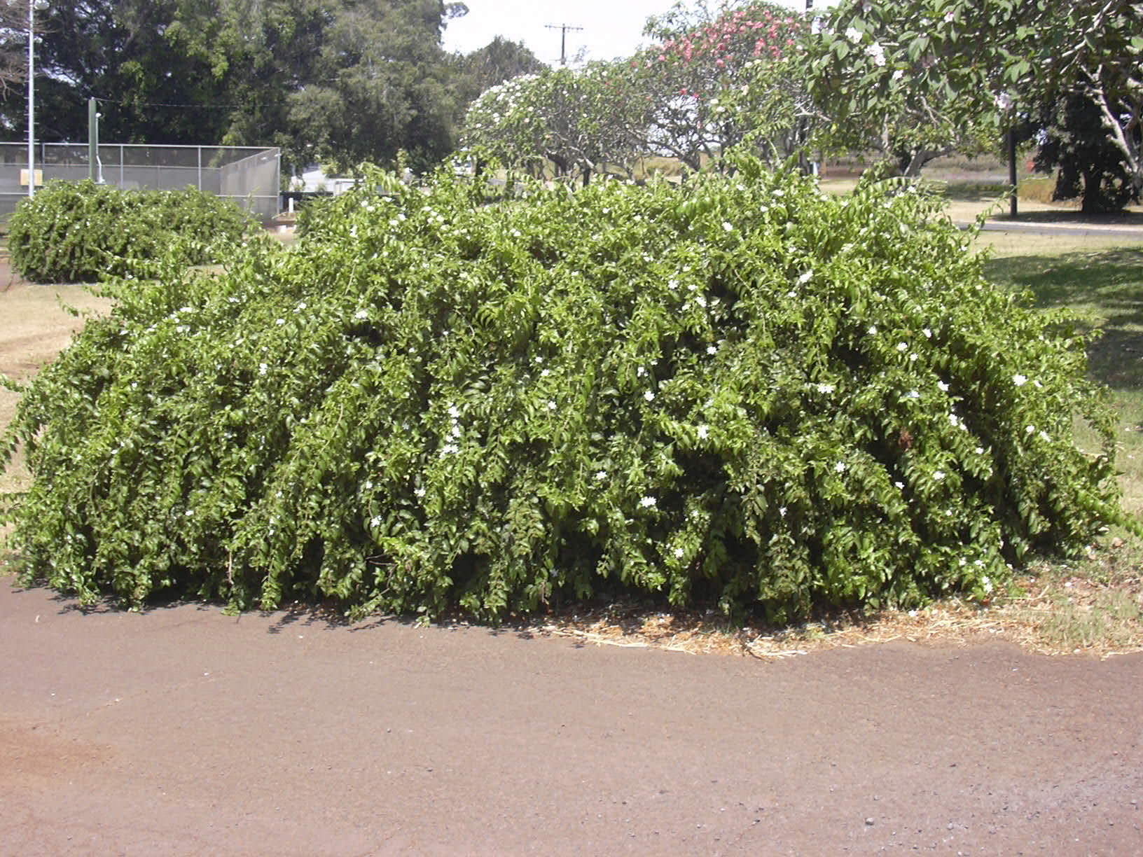 Jasminum multiflorum (habit). Location: Maui, Haliimaile